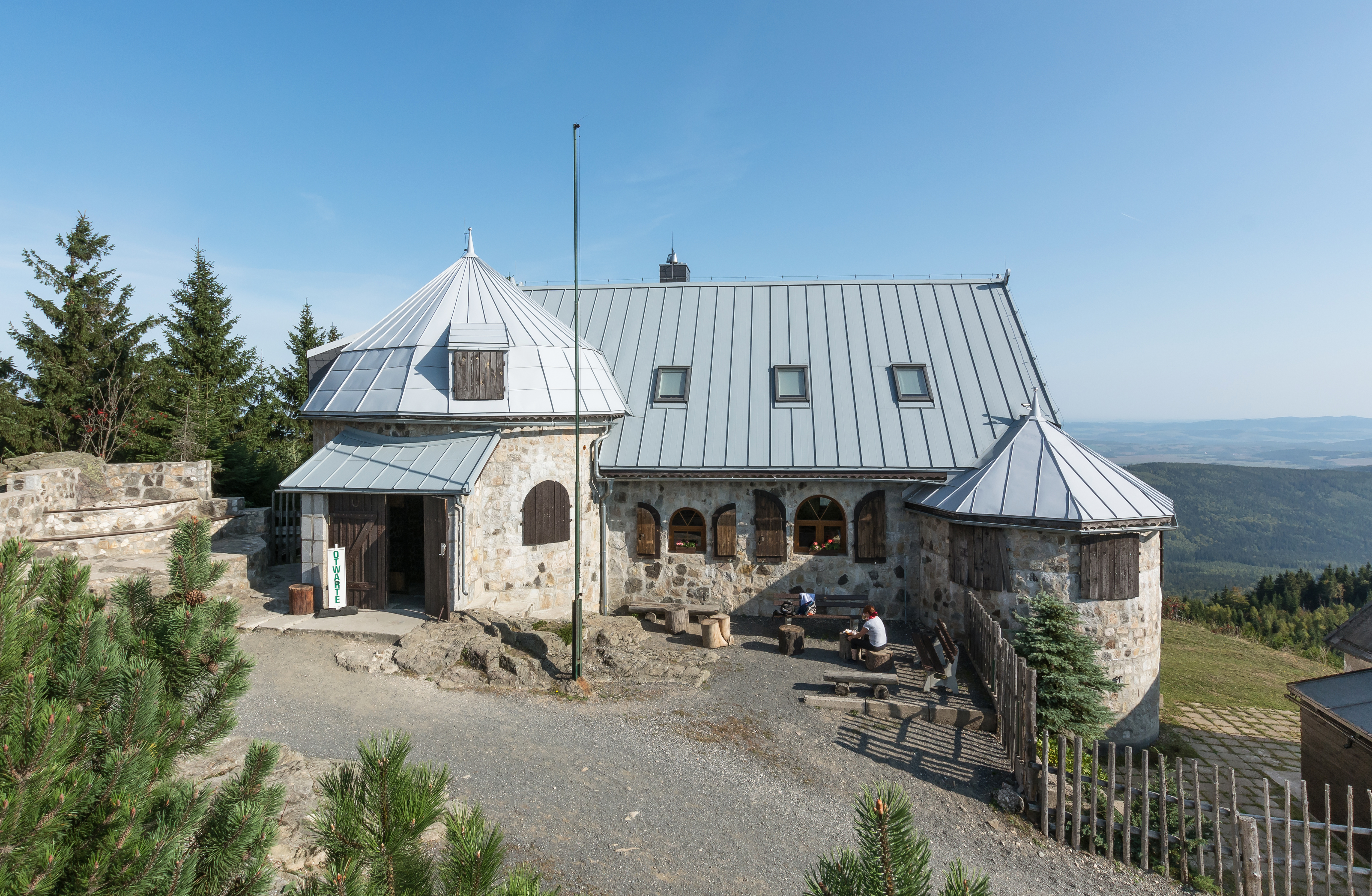 Wysoki Kamień mountain lodge